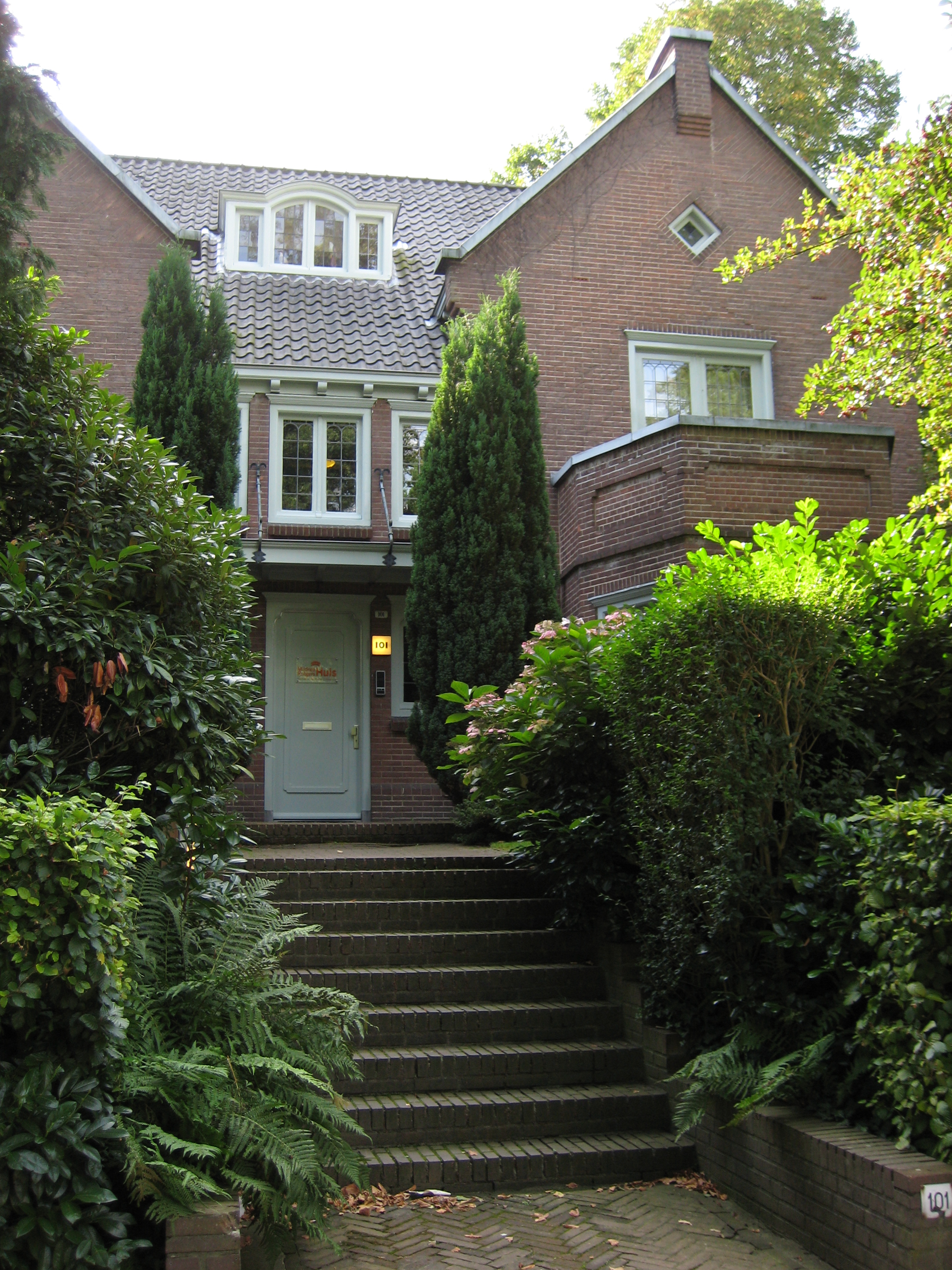 Mildredhuis: an abortion clinic located in Arnhem, Netherlands that opened its doors in 1971, after a television fundraising campaign.